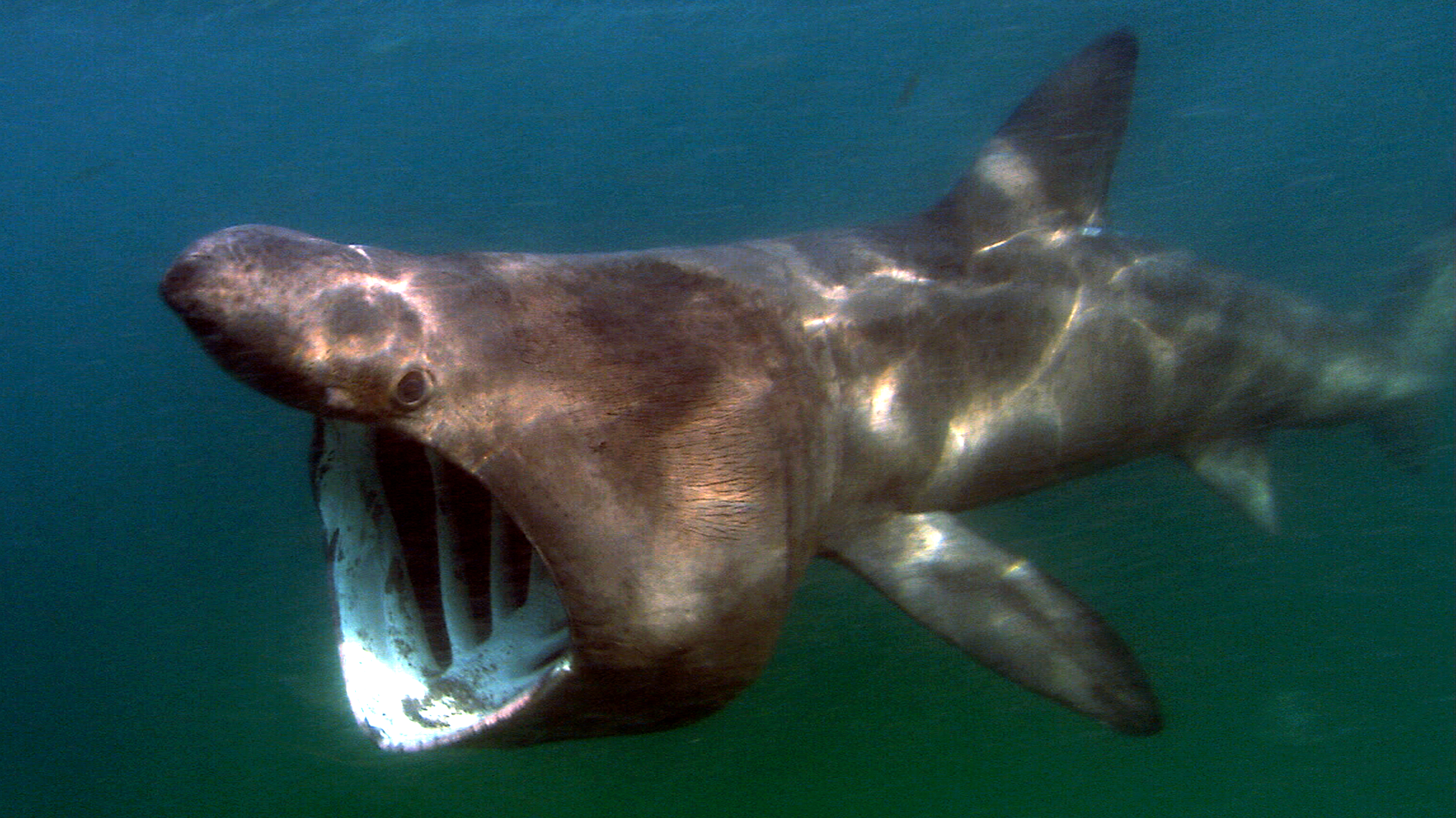 Basking shark (Cetorhinus maximus) off the Atlantic coast.